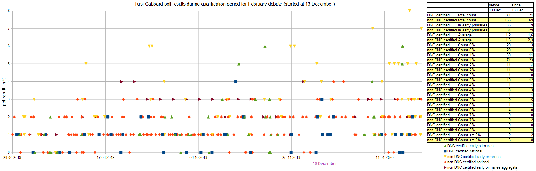 Diagram of Tulsi Gabbard poll results during the qualification period 13 December 2019 - 6 February 2020 for the October debates of the 2020 Democratic Party presidential primaries. An embedded table contains aggregates for total poll count, average result, etc. separately for DNC certified and non - DNC certified polls, as well as separately for the time period before and after 13 December 2019. The early primary states aggregate polls are not included in the data table.